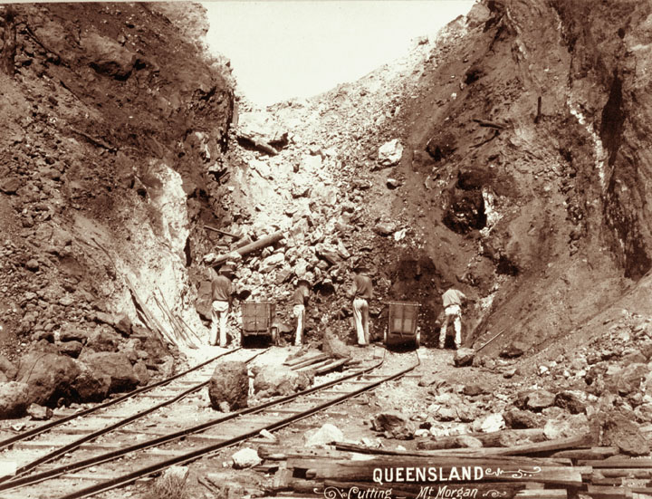 Four miners at face of cutting, Mount Morgan.